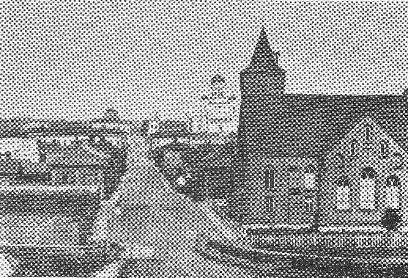 German Church in Helsinki / Unioninkatu. The Saint Nicholas Church, now known as the Cathedral of Helsinki, is seen on the background.